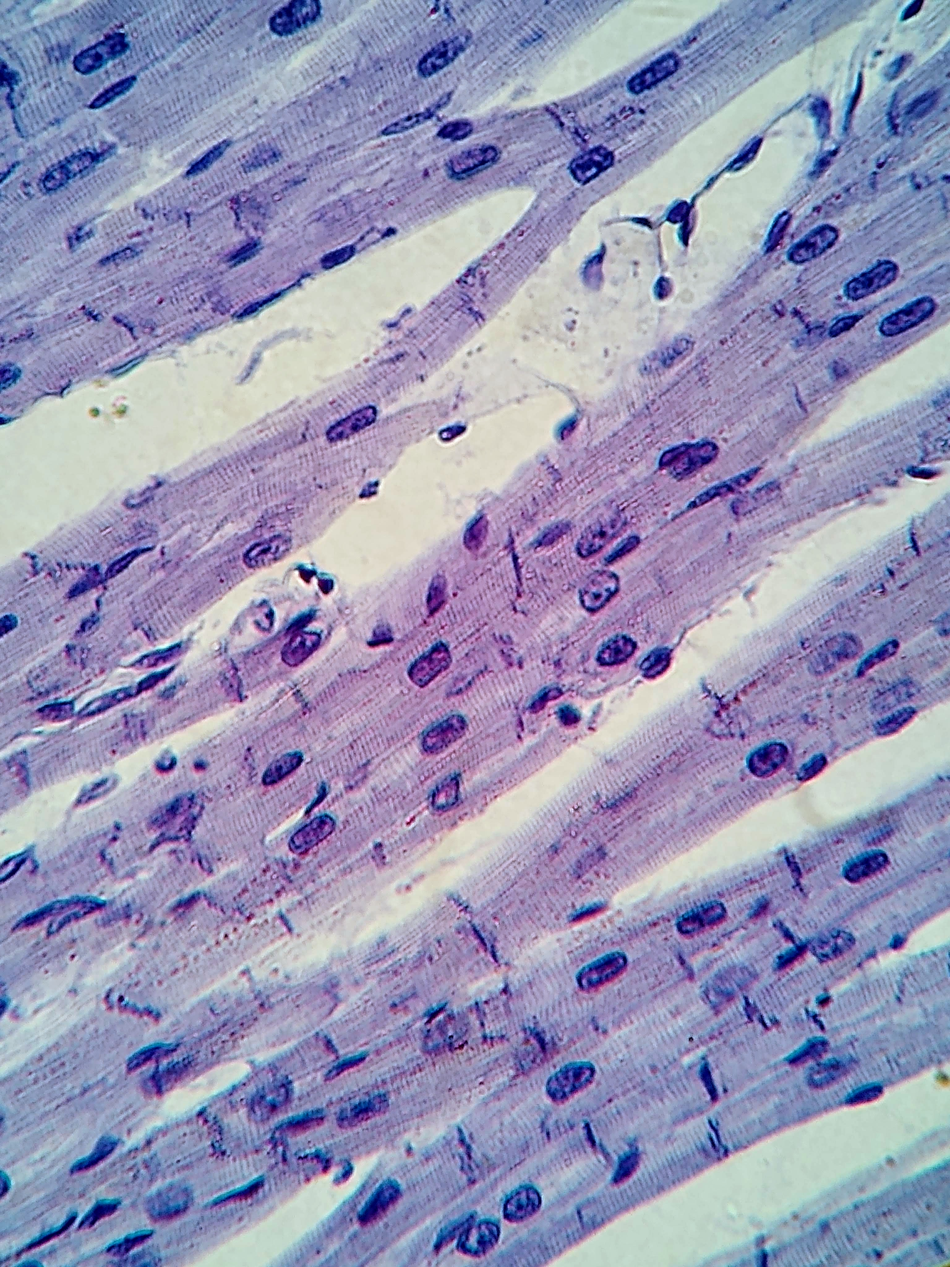 Photo of cardiac muscle seen in the light microscope at 400x magnification